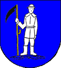 Chybie COA